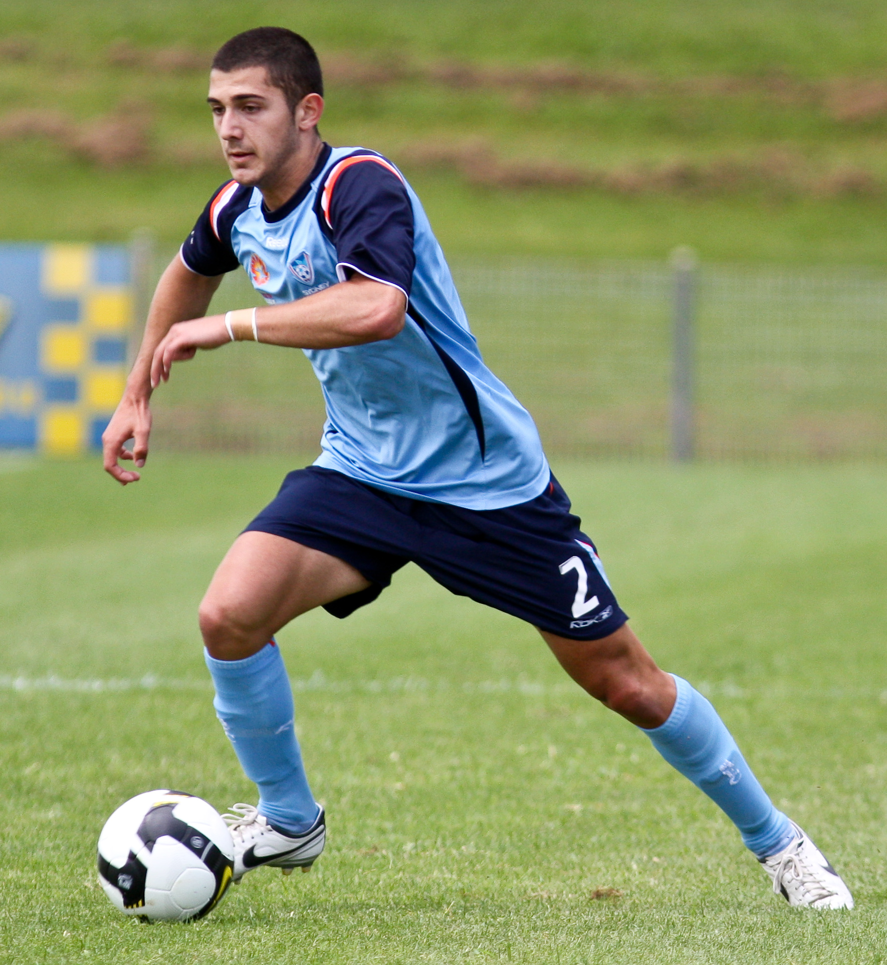 Nikolas Tsattalios playing for Sydney FC Youth against Perth Glory youth.